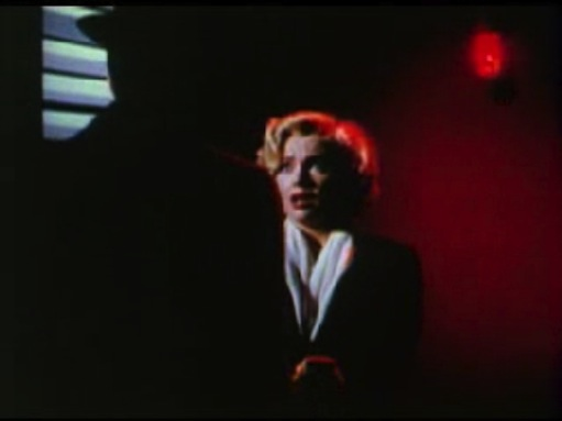 Marilyn Monroe is frightened in the theatrical trailer of the 1953 film Niagara directed by Henry Hathaway.